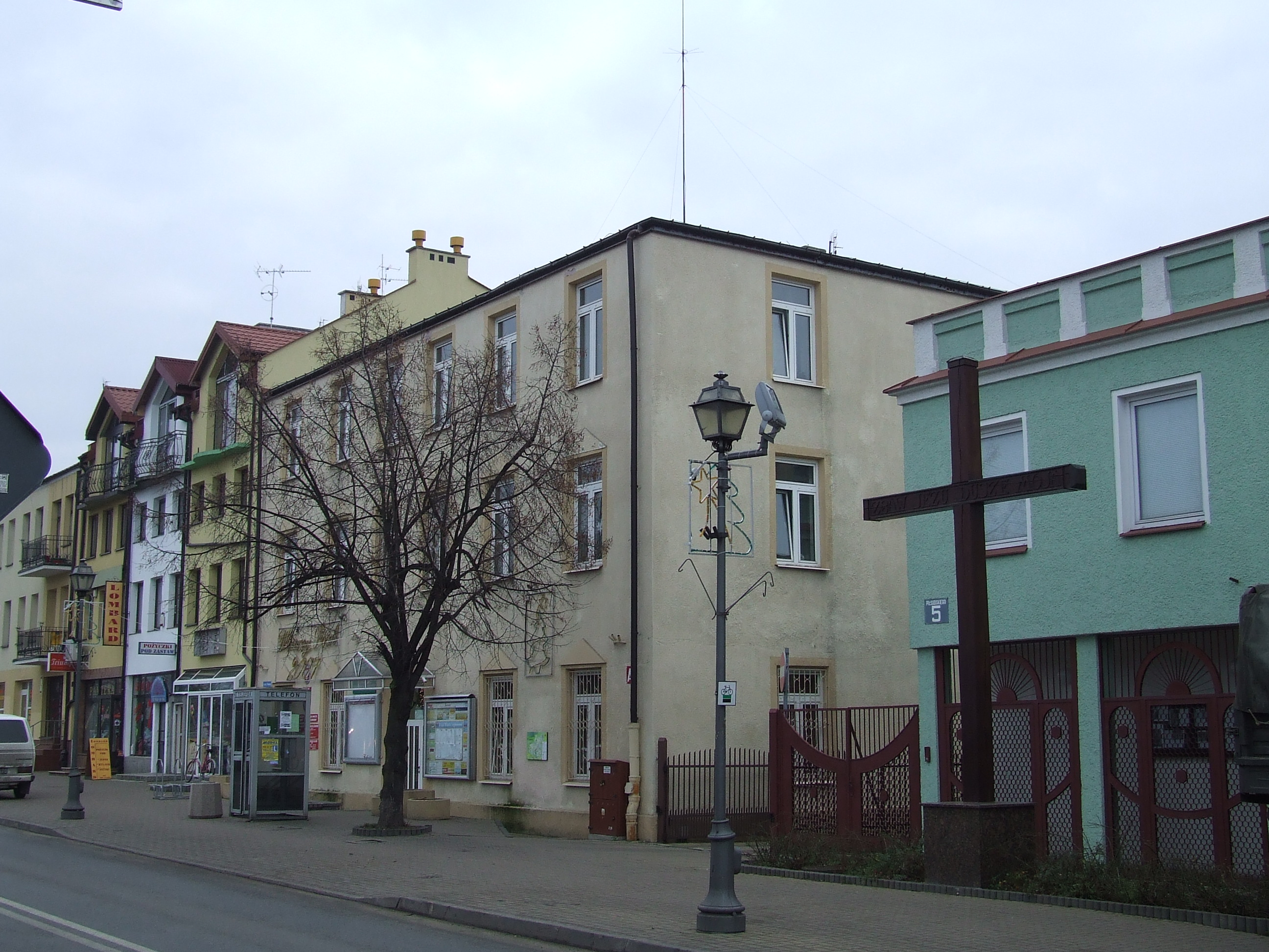 Legionowo, city hall